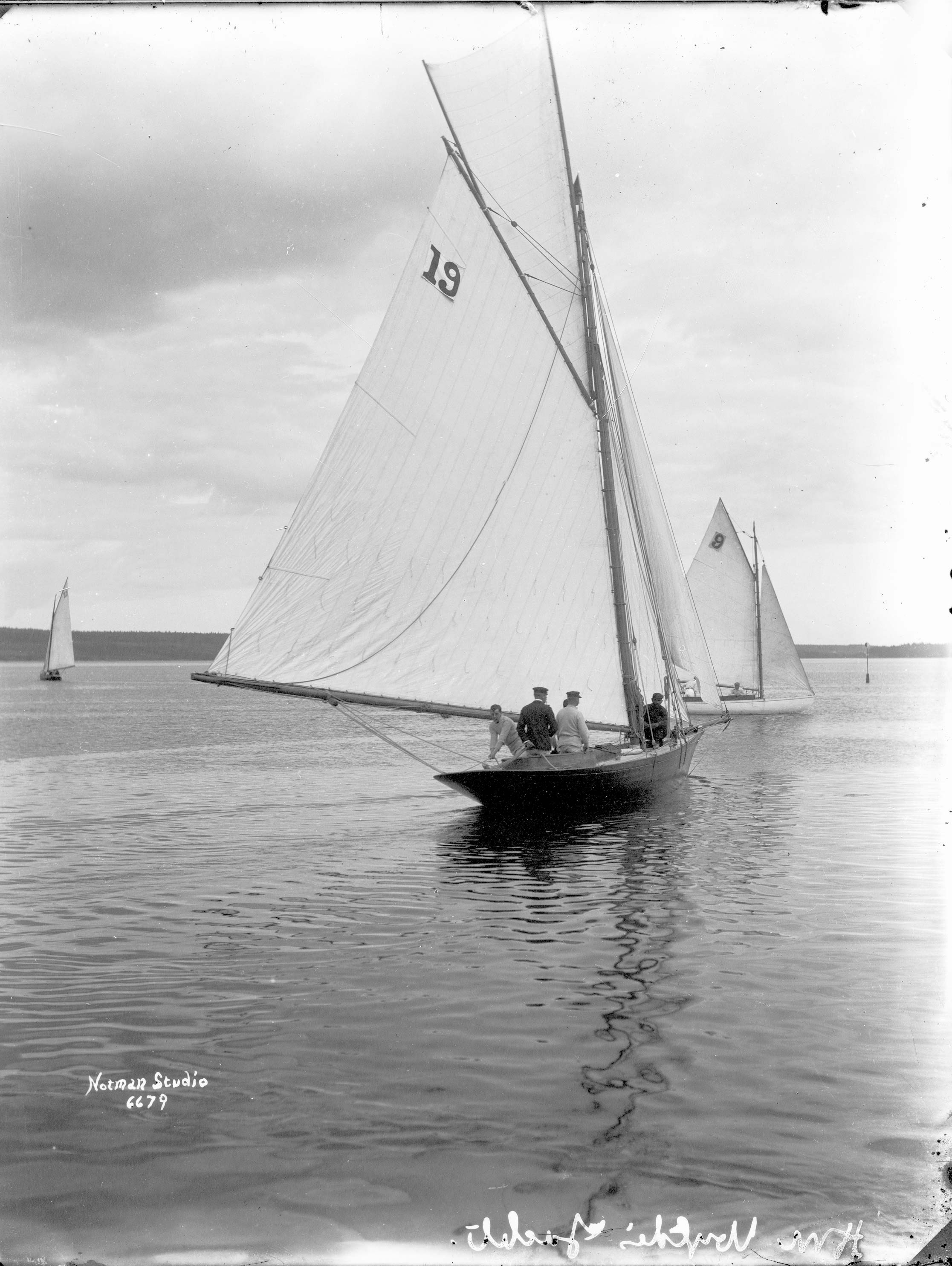 Harry Wylde's 26-foot cutter Youla was designed by William Fife and built by Reuben Harlow at Dartmouth. The yacht was a successful racer for both Mr. Wylde and subsequent owners.